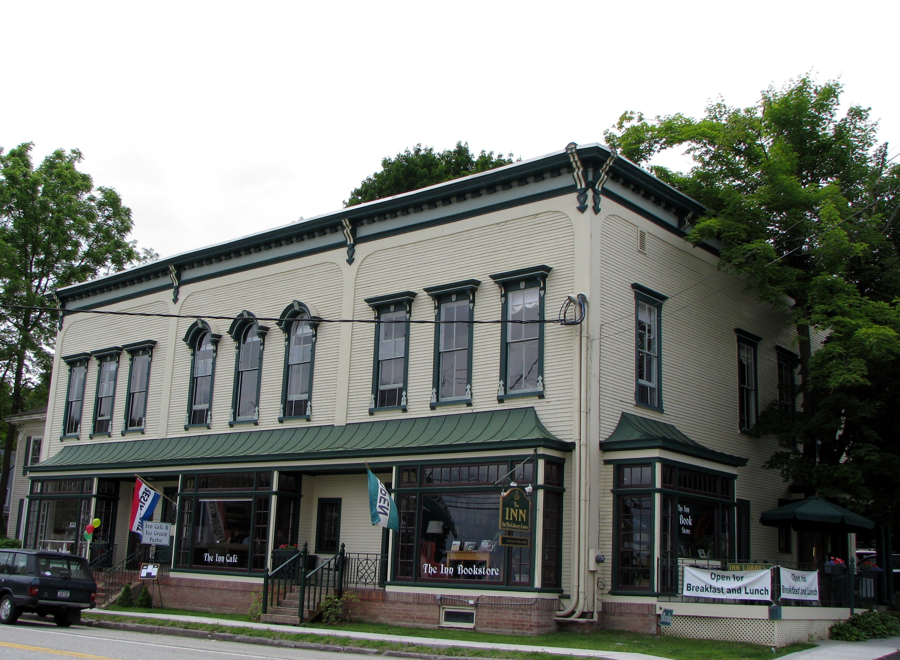 Annex to the old Westport Inn (destroyed 1966), Westport, New York. Now used as a commercial building. The Inn was across the street-- it's site is now a village park.